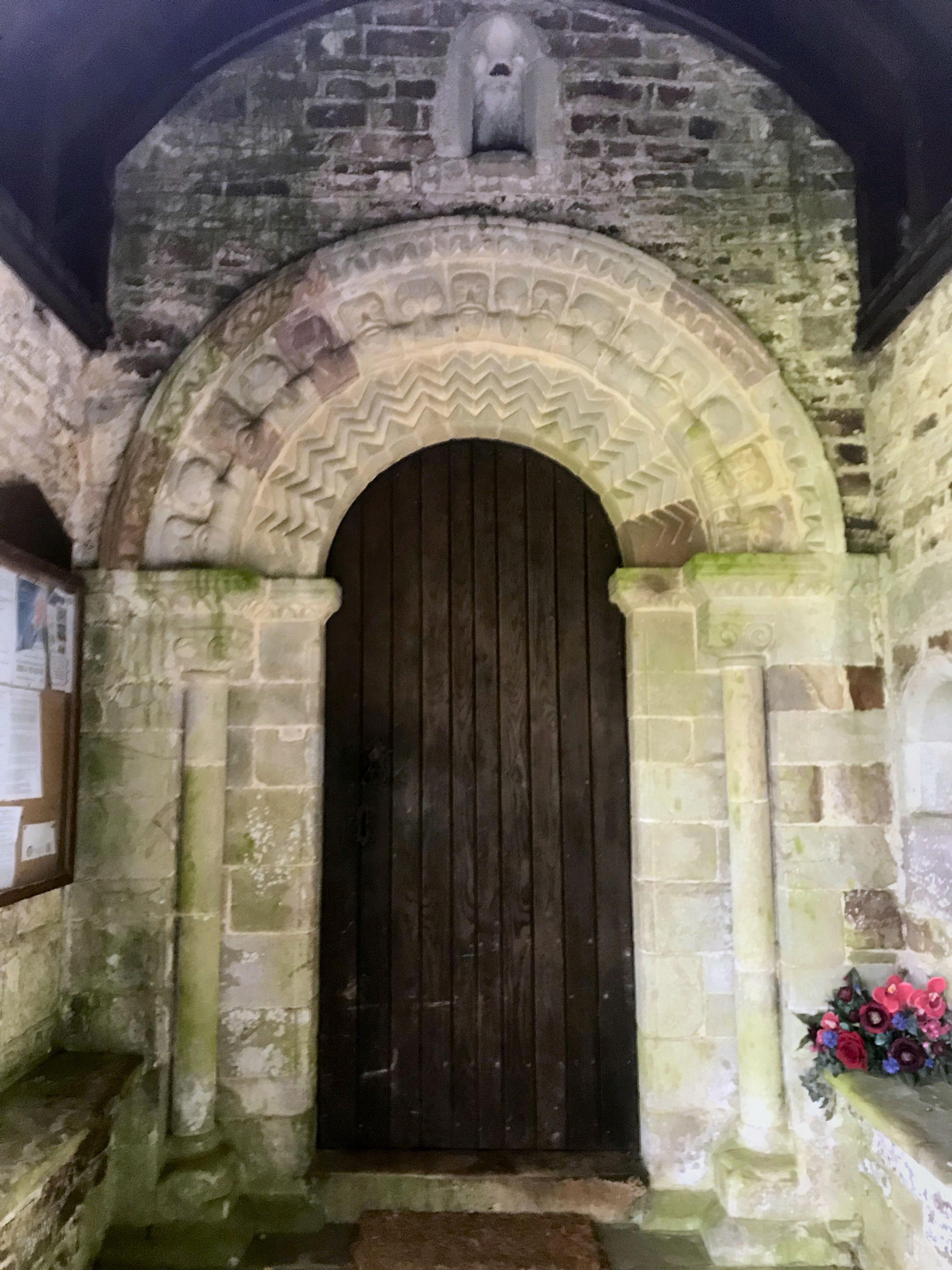 One of the oldest surviving parts of the original church of St Mary and St Benedict at Buckland Brewer, the carved Norman doorway dates to about 1100 AD while the image niche above the doorway dates to about 1200